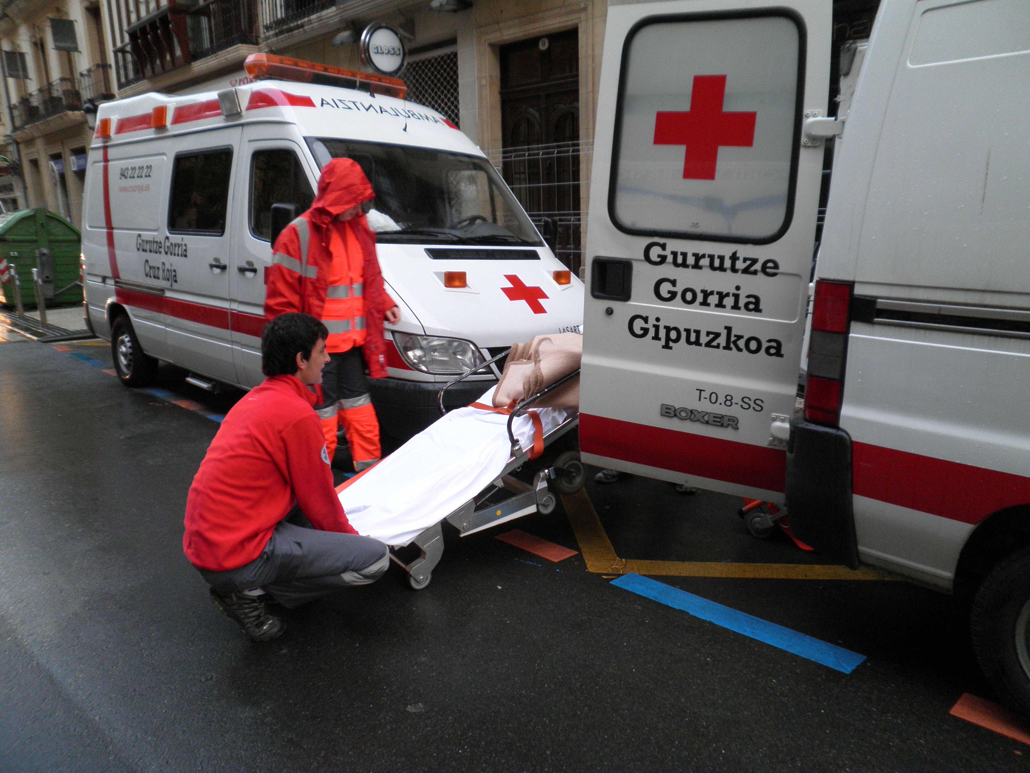 Red Cross in Donostia, Basque Country.